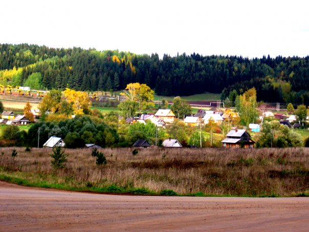 Kolyshevo